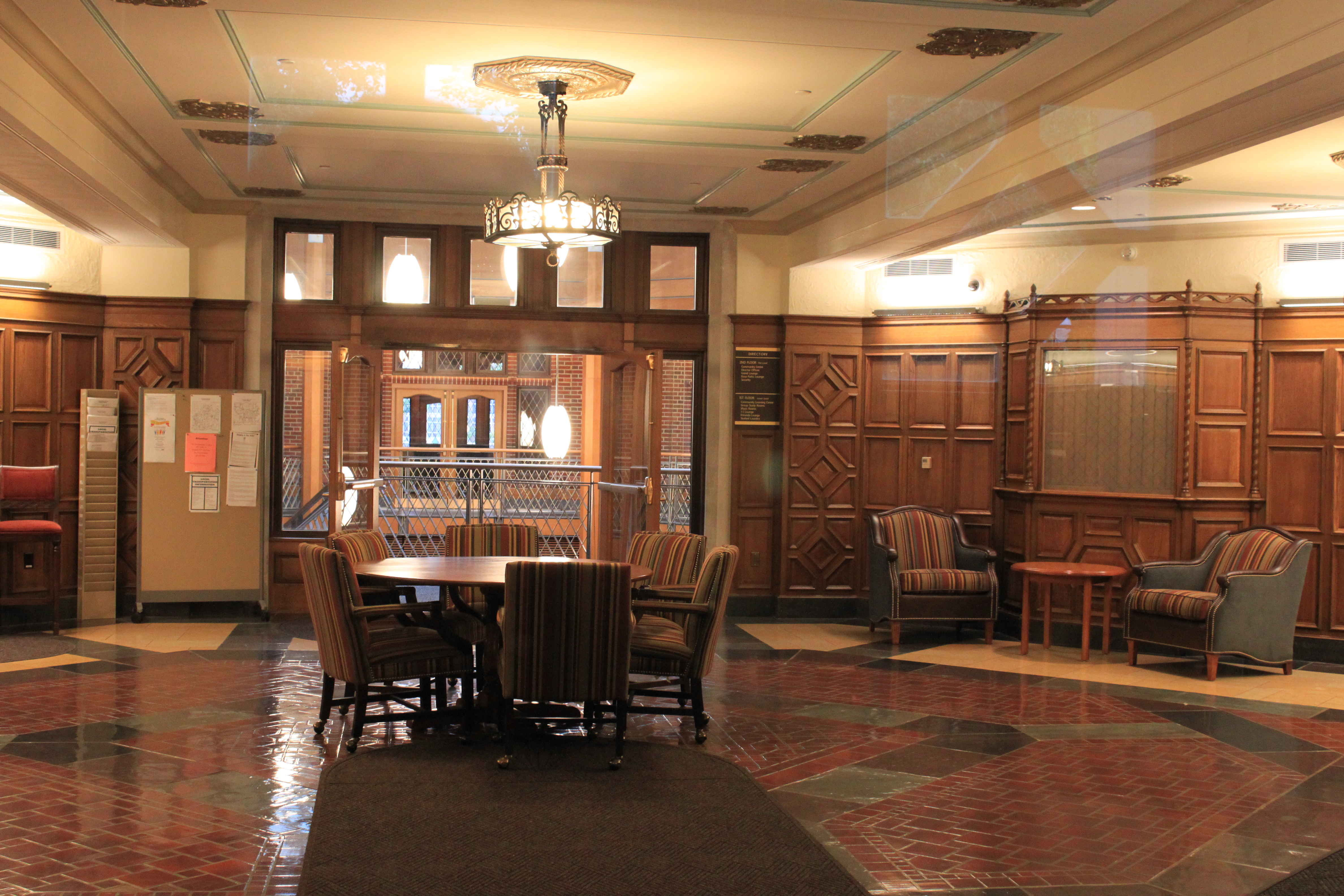 Stockwell Residence Hall lobby, University of Michigan, 324 Observatory St.